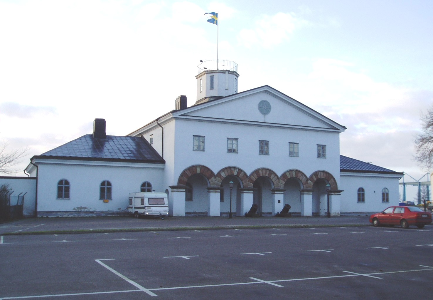 main control point (högvakten), Karlskrona